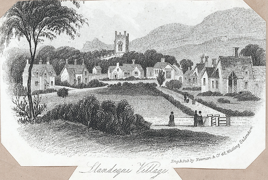 A view of the village of Llandegai, with St. Tegai's church in the background.